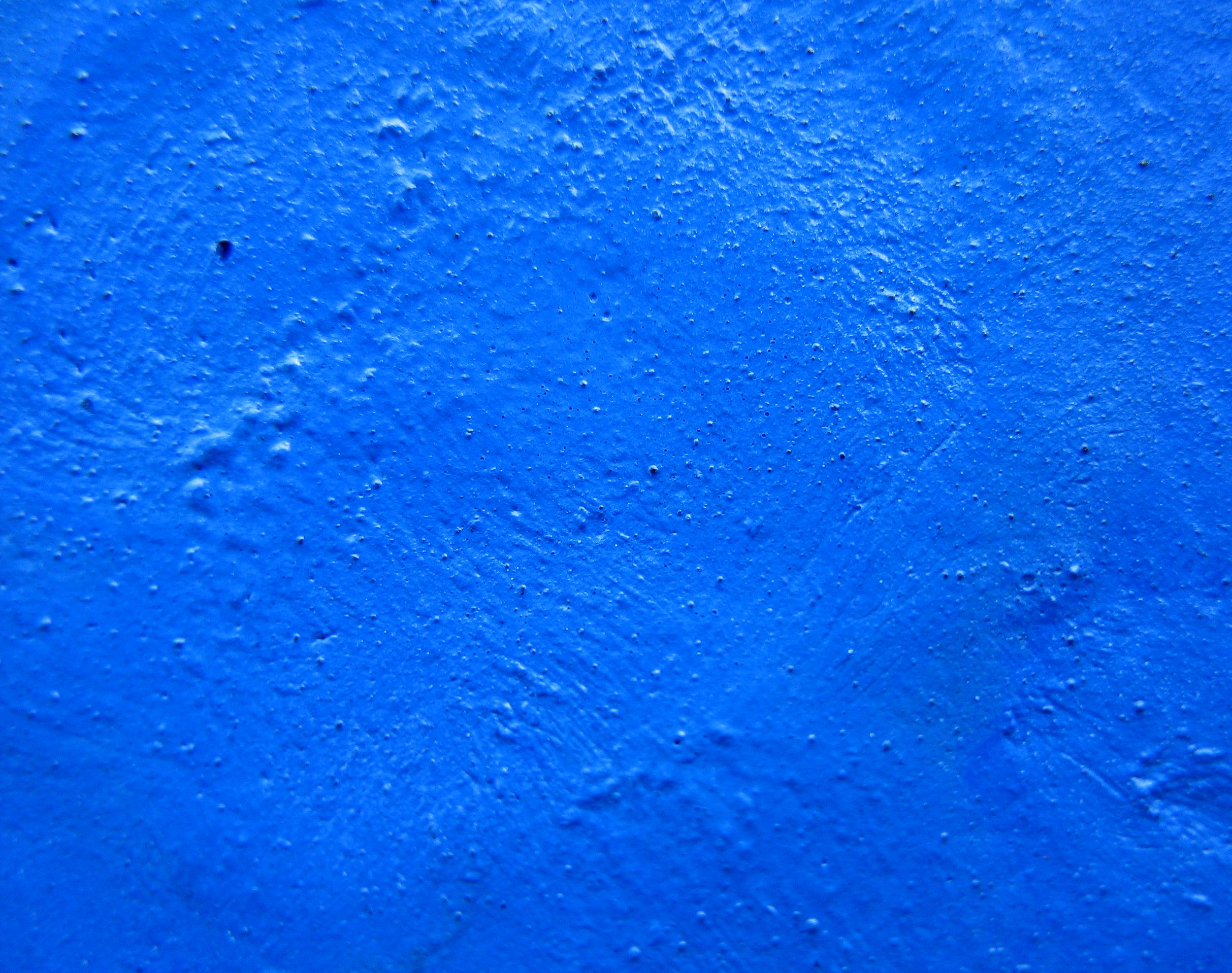 Macro on a blue Gouache palette.